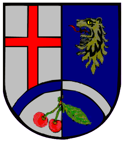 Coat of arms of Filsen